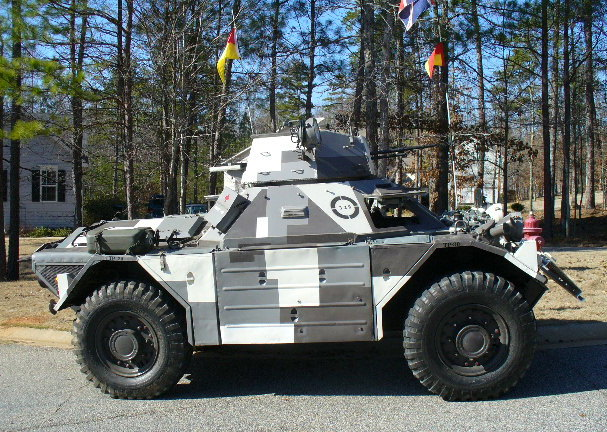 1958 British Ferret Scout Car by Daimler, 6-cylinder, 4.5 Tons, Rolls-Royce Engine, Used to patrol the Berlin Wall, "Urban Camo Pattern", Used in over 30 countries including Desert Storm.